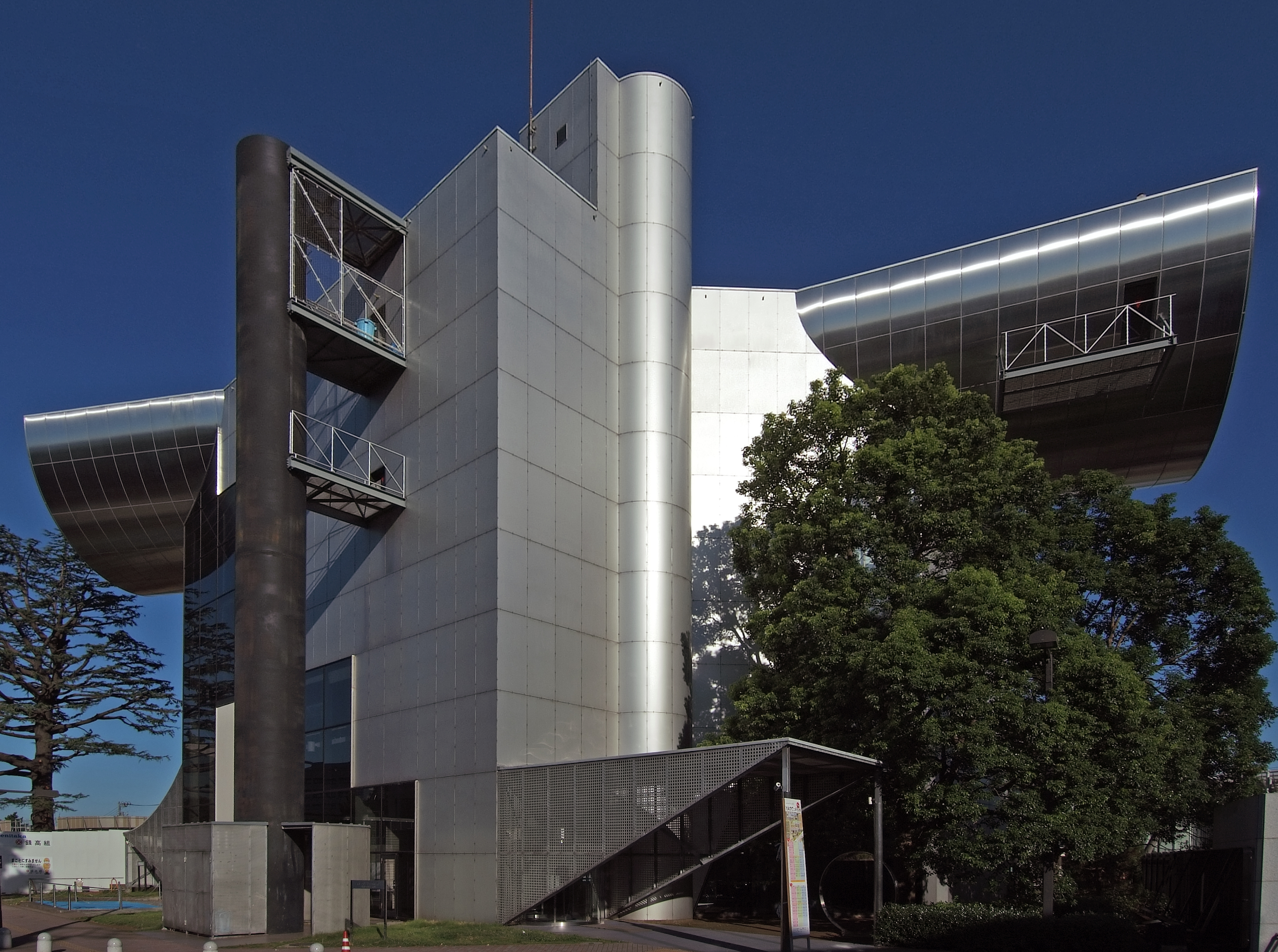 Tokyo Institute of Technology Centennial Hall, at Meguro-ku Tokyo Japan, designed by Kazuo Shinohara in 1987.